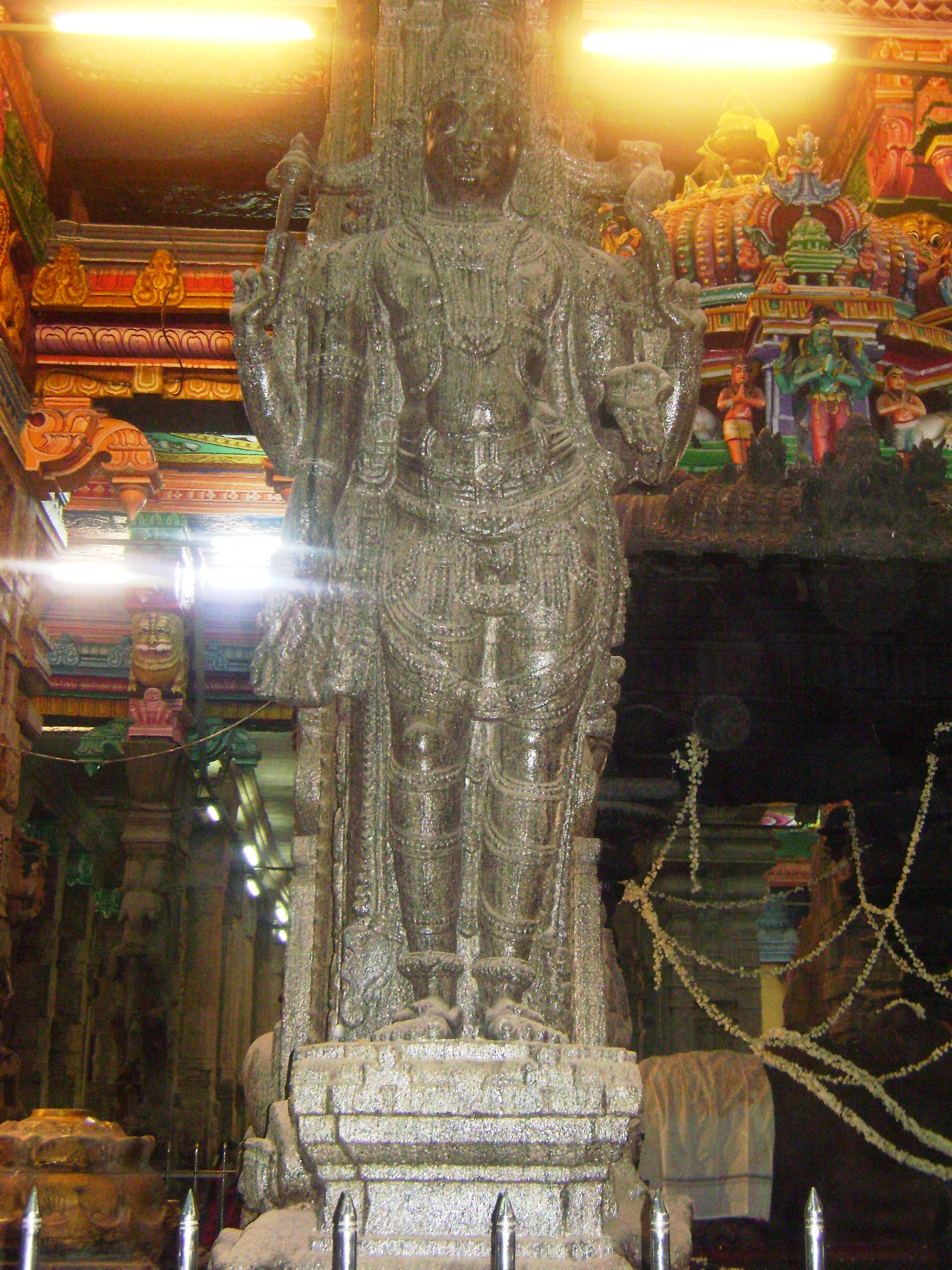 Lord Shiva's Sculpture.